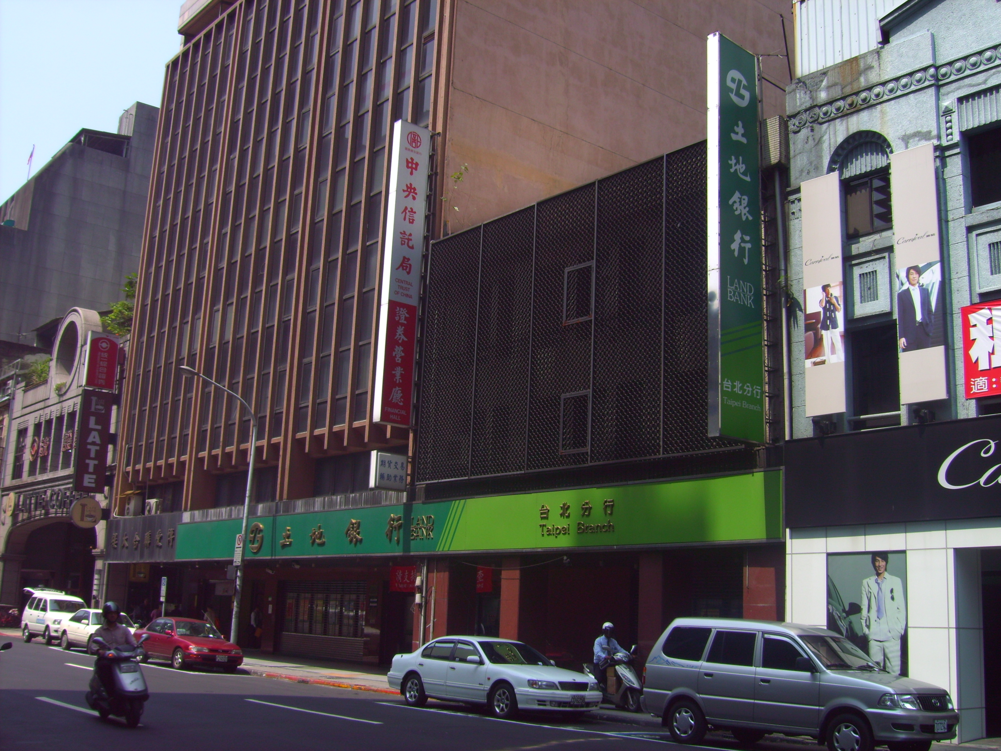 Taipei Branch, Land Bank of Taiwan provides currency exchange. 中文（台灣）: 臺灣土地銀行臺北分行，位於臺北市中正區博愛路72號1樓（博愛聯合大樓），有提供外匯兌換的業務。中央信託局證券營業廳同棟。